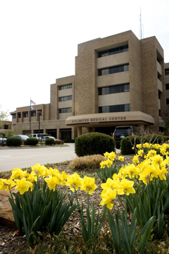 Outside Stillwater Medical Center